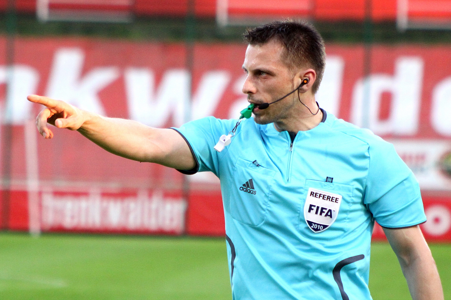 Gerhard Grobelnik, Referee of Austria